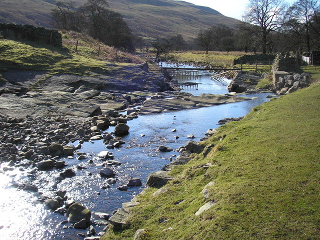 Barkin Beck. Barbon Fell in the background